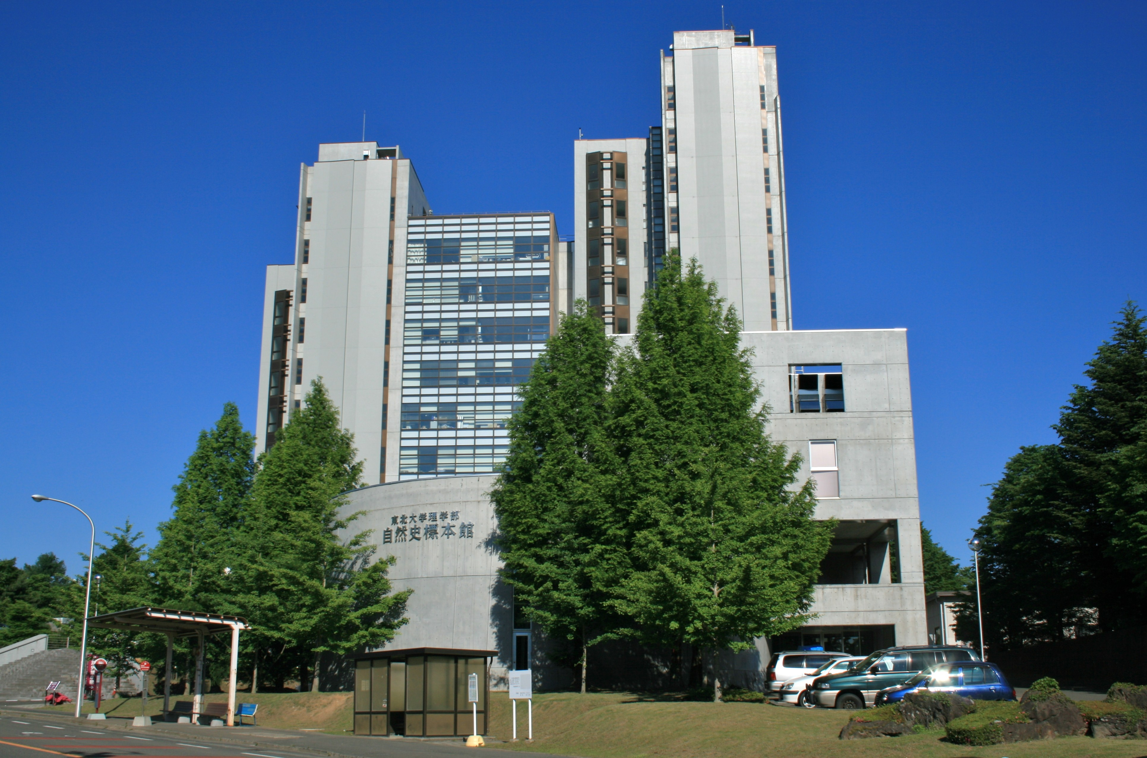 Graduate School of Science and Faculty of Science, Tohoku University. Taken from east on June 25th, 2010.